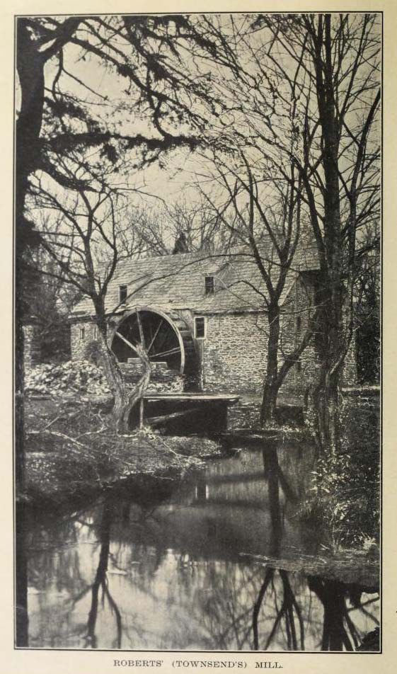 "Roberts' (Townsend's) Mill." A grist mill on Mill Creek (east branch of Wingohocking Creek), Germantown, Philadelaphia, built 1680s, demolished circa 1873.